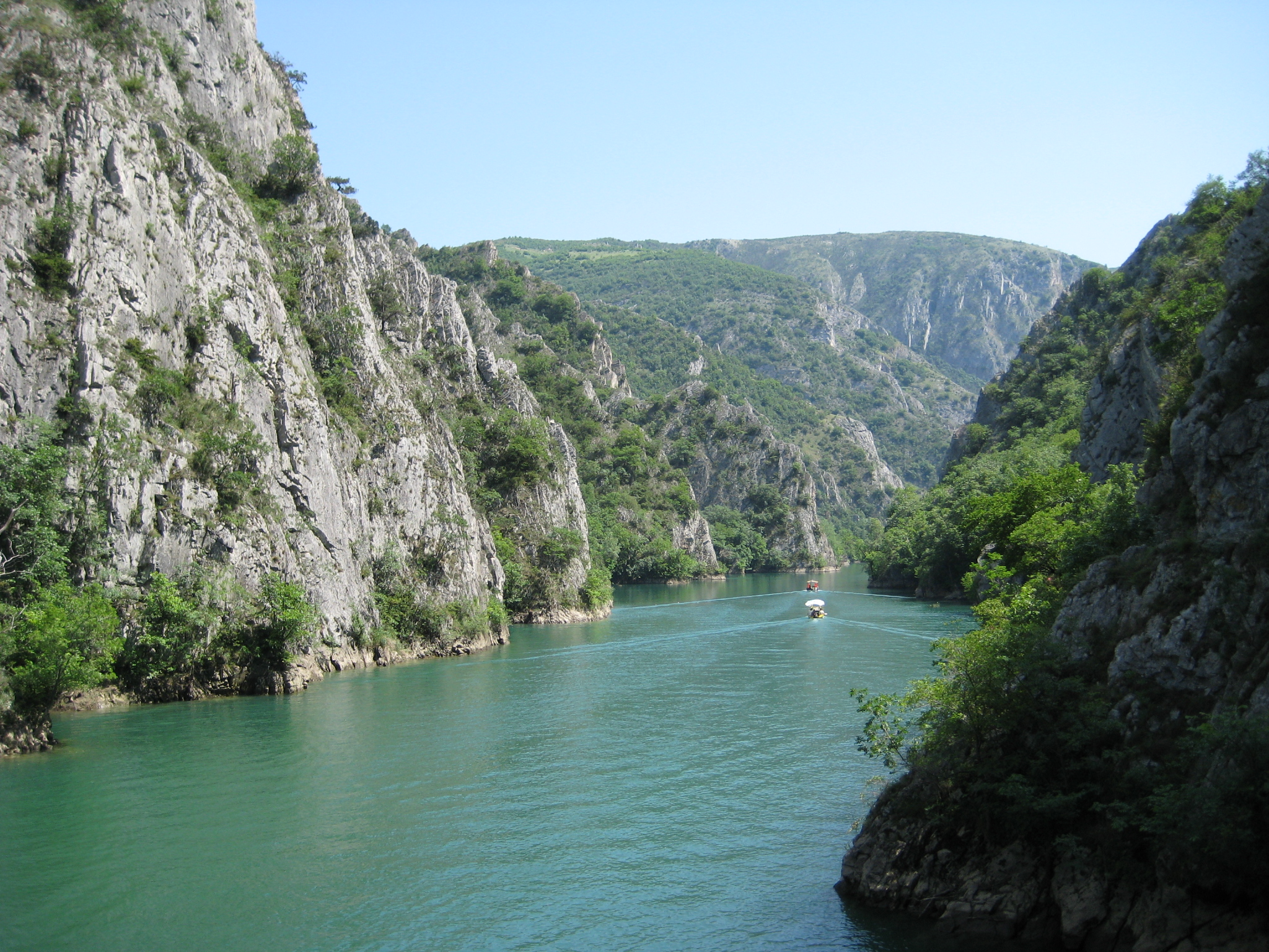 Lake Matka, Republic of Macedonia